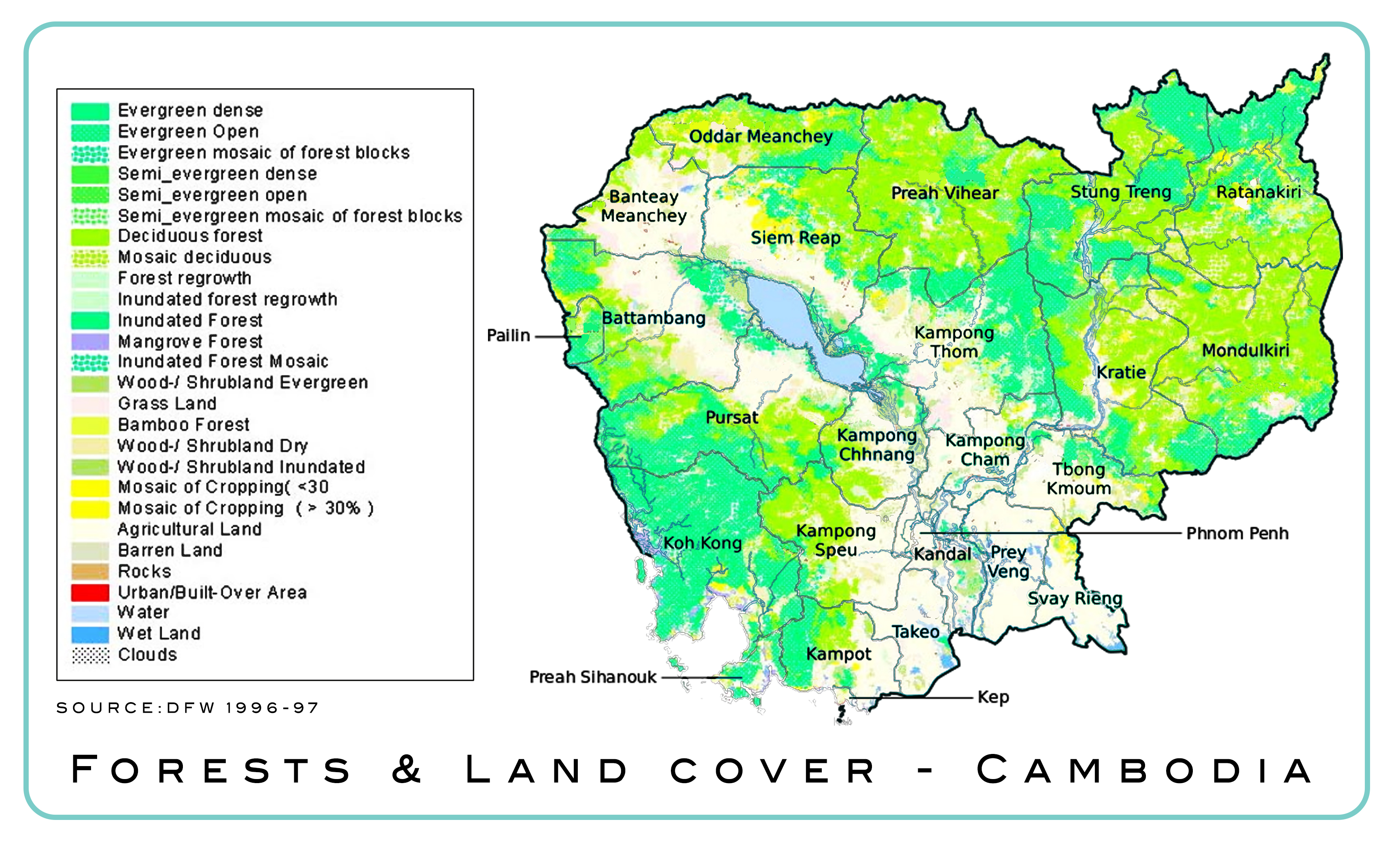 map of forests, vegetation and land use in Cambodia, source: DFW 1996-97